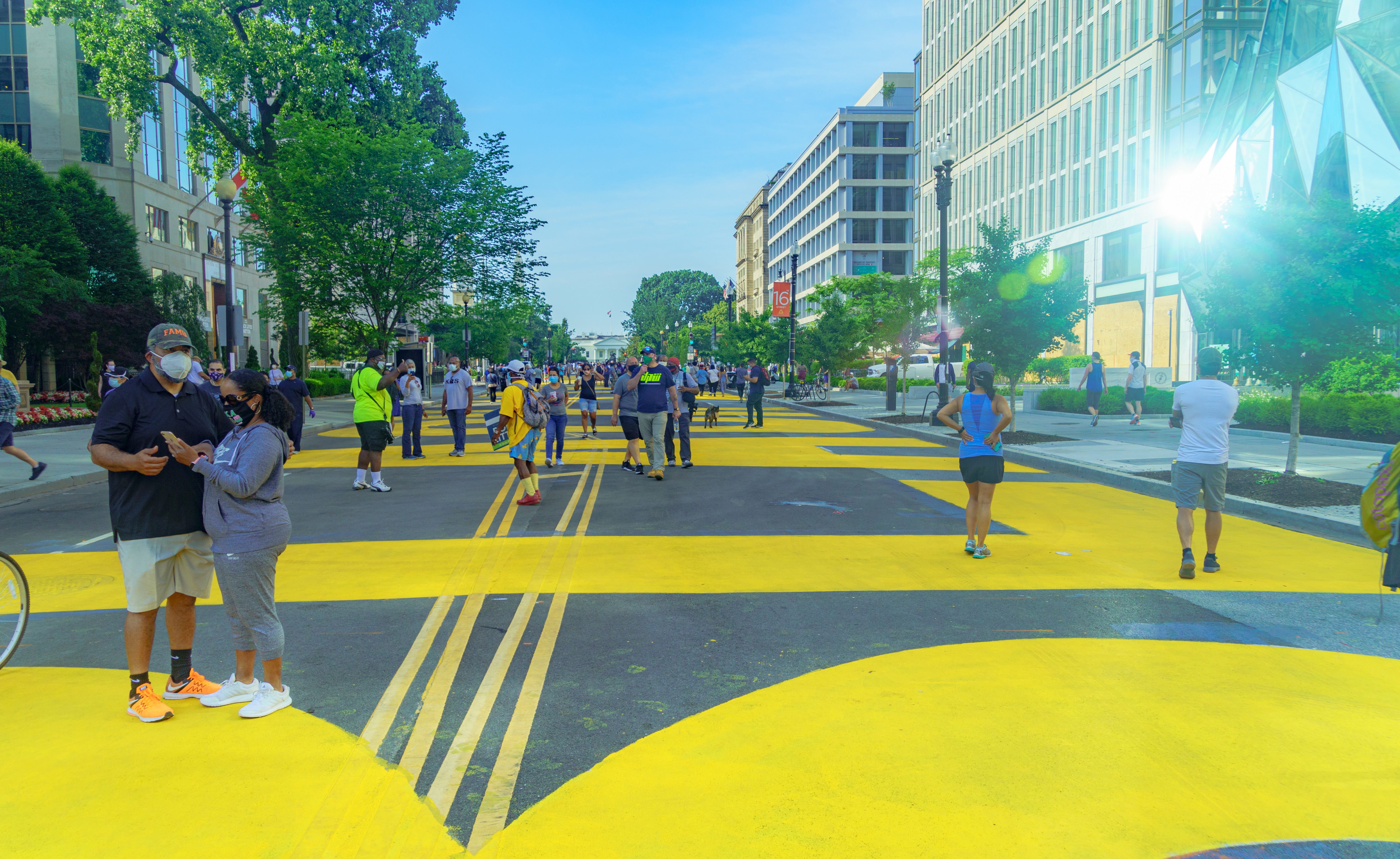 Black LIves Matter Plaza, created by the Government of the District of Columbia, in the wake of the murder of George Floyd